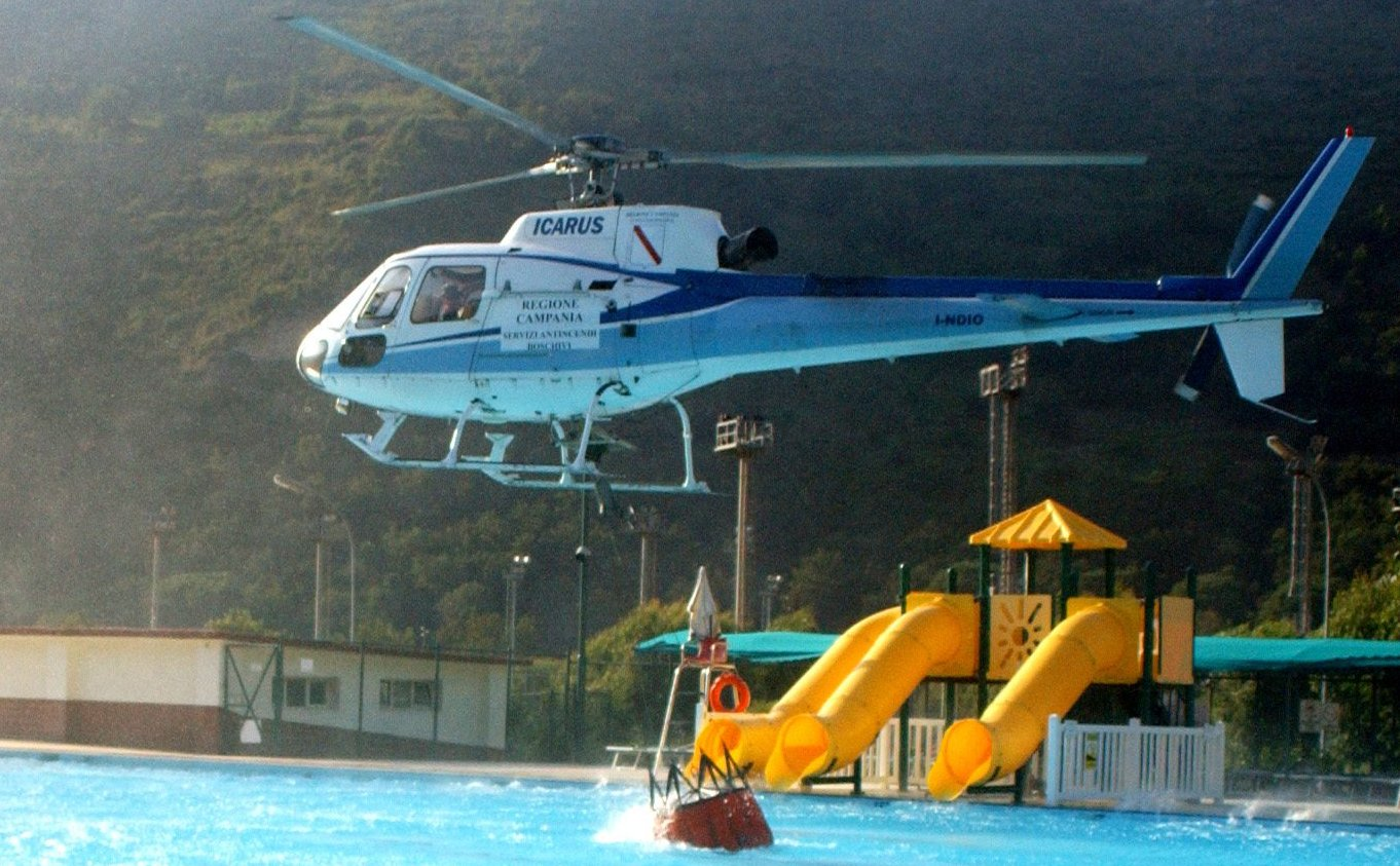 An Italian firefighting helicopter fills its 125-gallon bag (a Bambi bucket) with water from the Carney Park public swimming pool at Naval Support Activity, Naples, Italy, to assist authorities fighting local wildfires, Sept. 1, 2004. Using the pool reduced the turn-around time for the helicopters from approximately five minutes to less than 60 seconds. DoD photo by Journalist 1st Class Stephen Woolverton, U.S. Navy (Released)